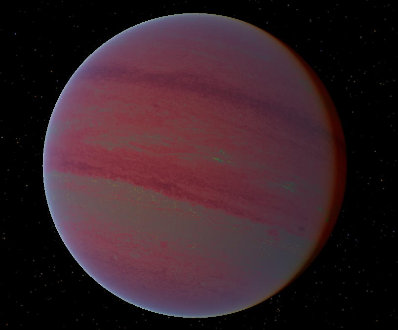 Artistic rendering of Aldebaran b planetary candidate